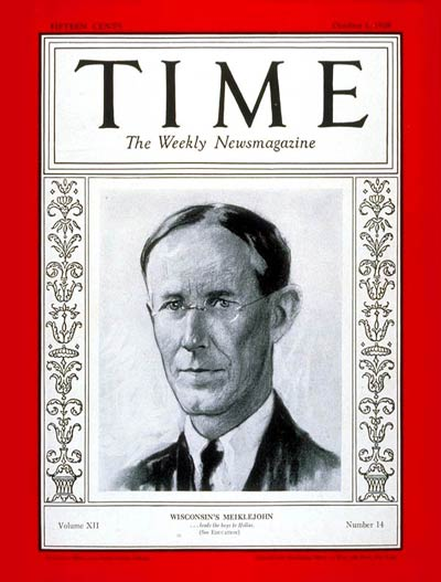 October 1, 1928 Time magazine cover featuring Alexander Meiklejohn